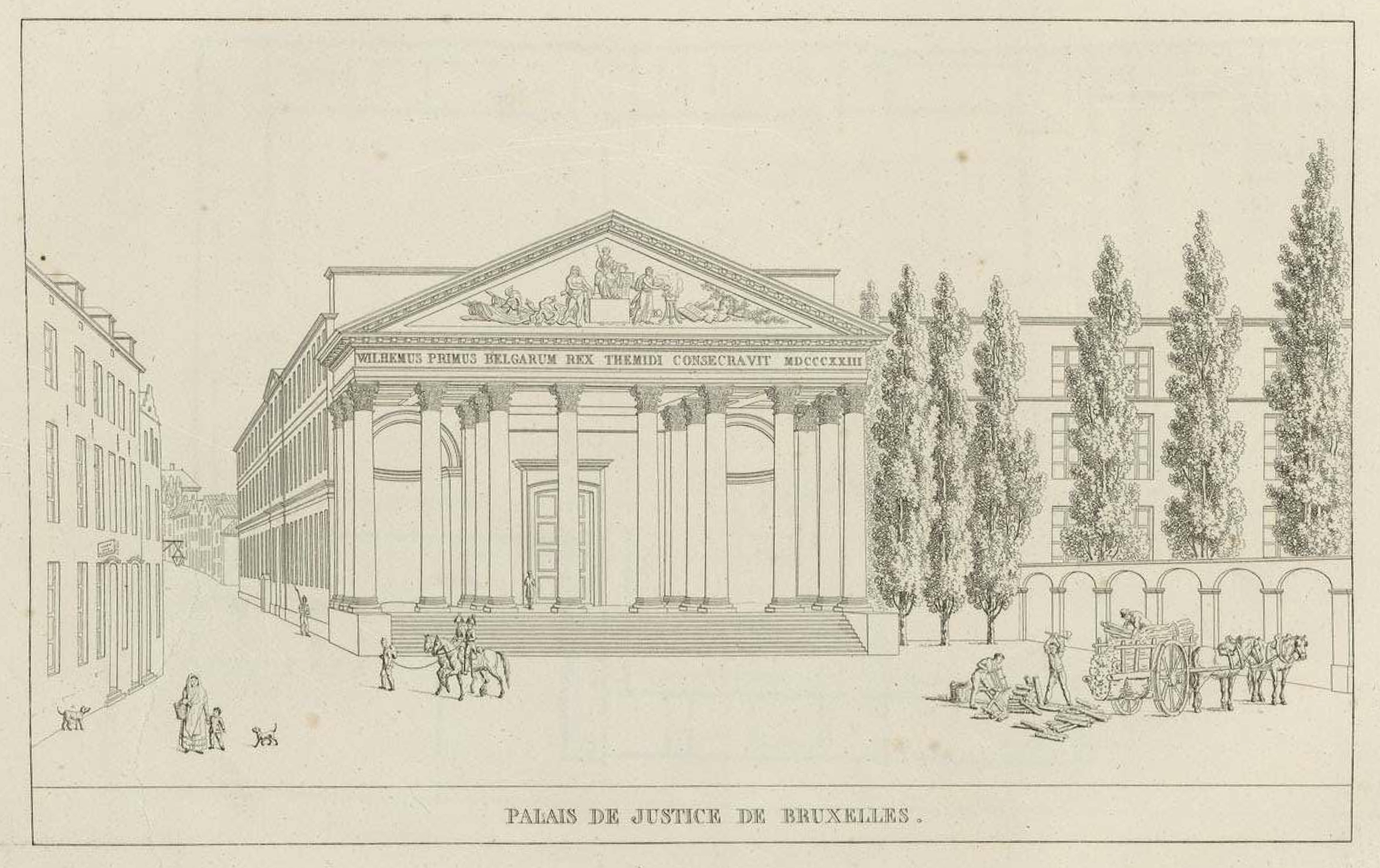 Pierre-Jacques Goetghebuer (1788-1866) became professor of architecture in Ghent, after his studies for architectural drawing at the local art academy. From 1817 he started working on a publication with images of the most remarkable buildings from the newly created United Kingdom of the Netherlands. This book would include both old and contemporary, neoclassicist buildings. Most of the 120 plates depict buildings from the Southern Netherlands, especially Brussels and Ghent. Goetghebuer executed the engravings based upon his own sketches or designs by the architects themselves. Other artists finished the engravings in aquatint. Goetghebuer published this collection of engravings in 1827 with publisher André Benoît II Steven, and he dedicated them to King William I. Many buildings in this book have since disappeared, hence its significant historical importance. Also published in Dutch, with the title Verzameling der merkwaardigste gebouwen in het Koningrijk der Nederlanden.